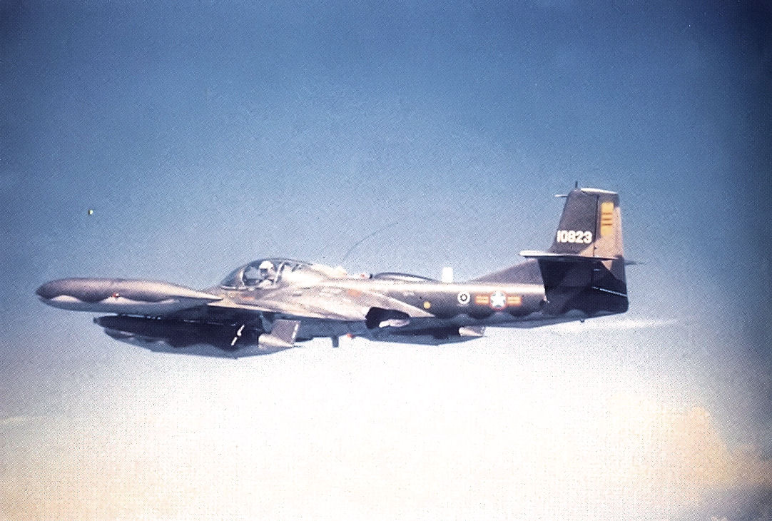 South Vietnamese Air Force Cessna A-37B Dragonfly 68-10823 516th Fighter Squadron on its way to a target to attack VC positions at Ba-To, near Da Nang on 5 October 1972.